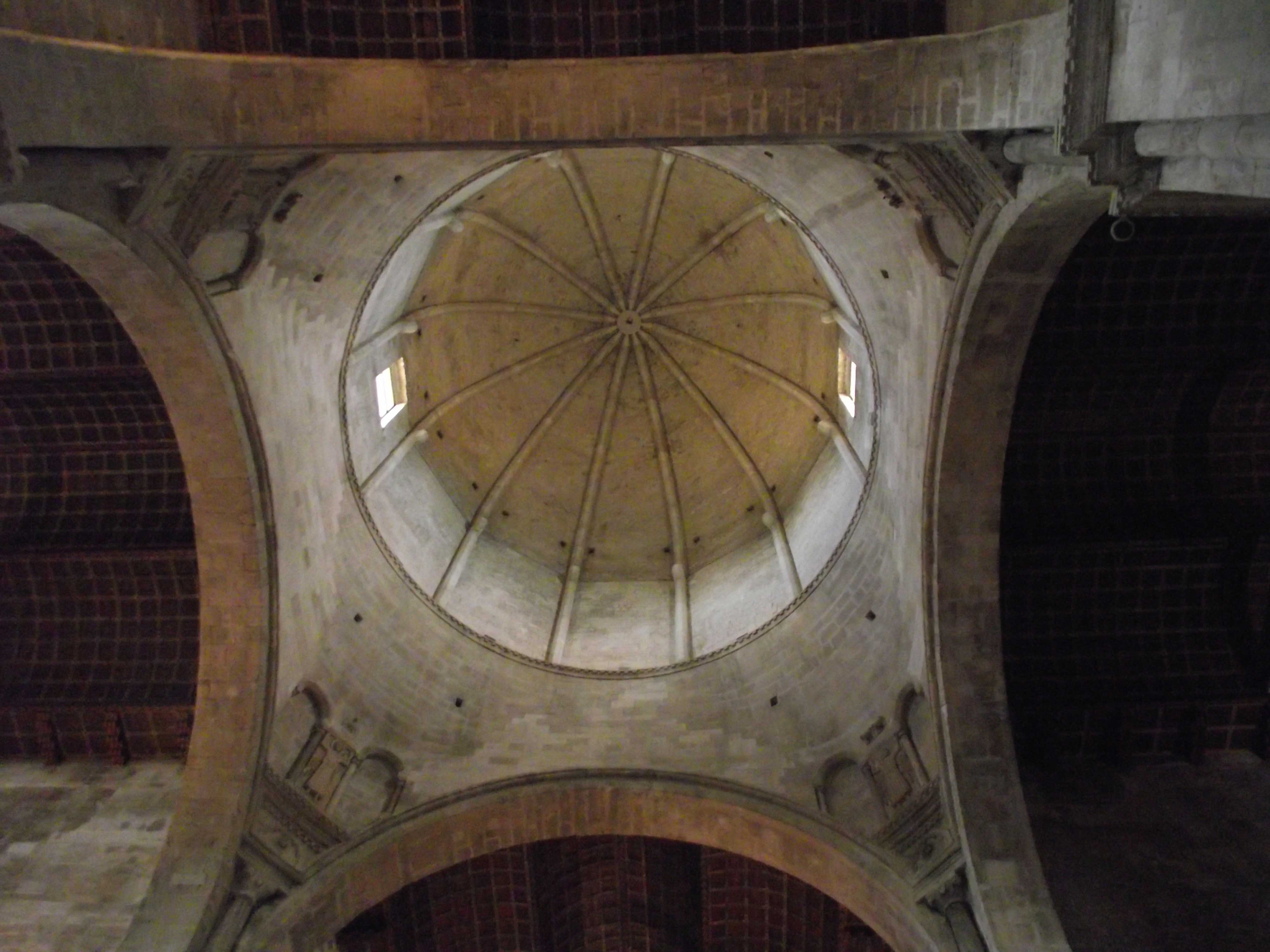 Ancona, Cathedral of St. Cyriacus, X-XII Century